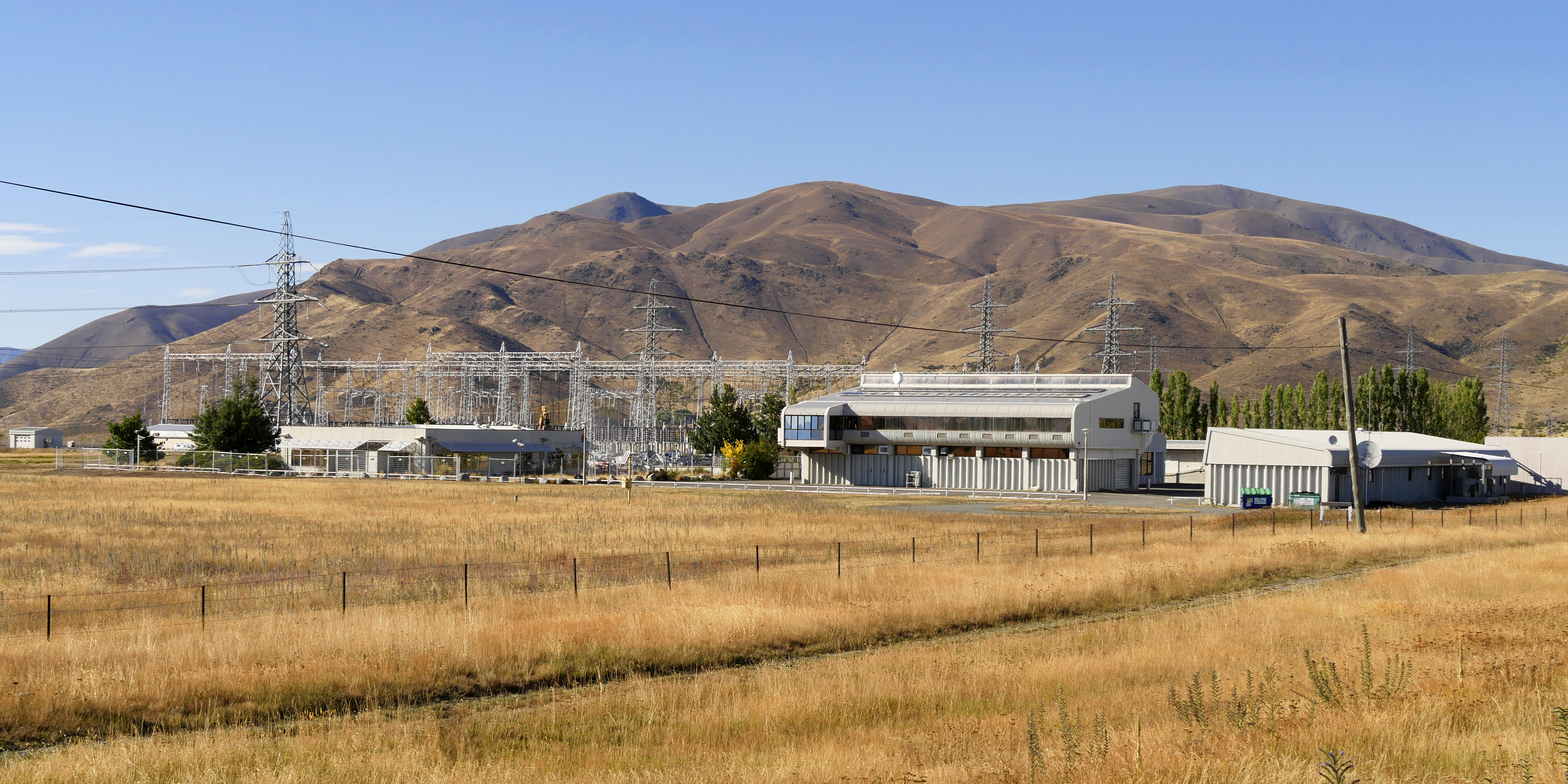 Twizel Office, Control Center of Waitaki Hydro Scheme, Twizel, Mackenzie District, Canterbury Region, South Island, New Zealand